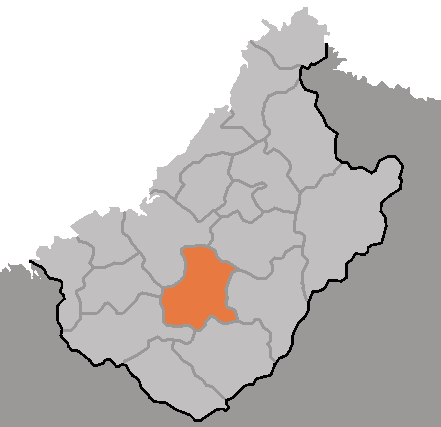 Map of Chonchon, Chagang-do, DPRK, 2006